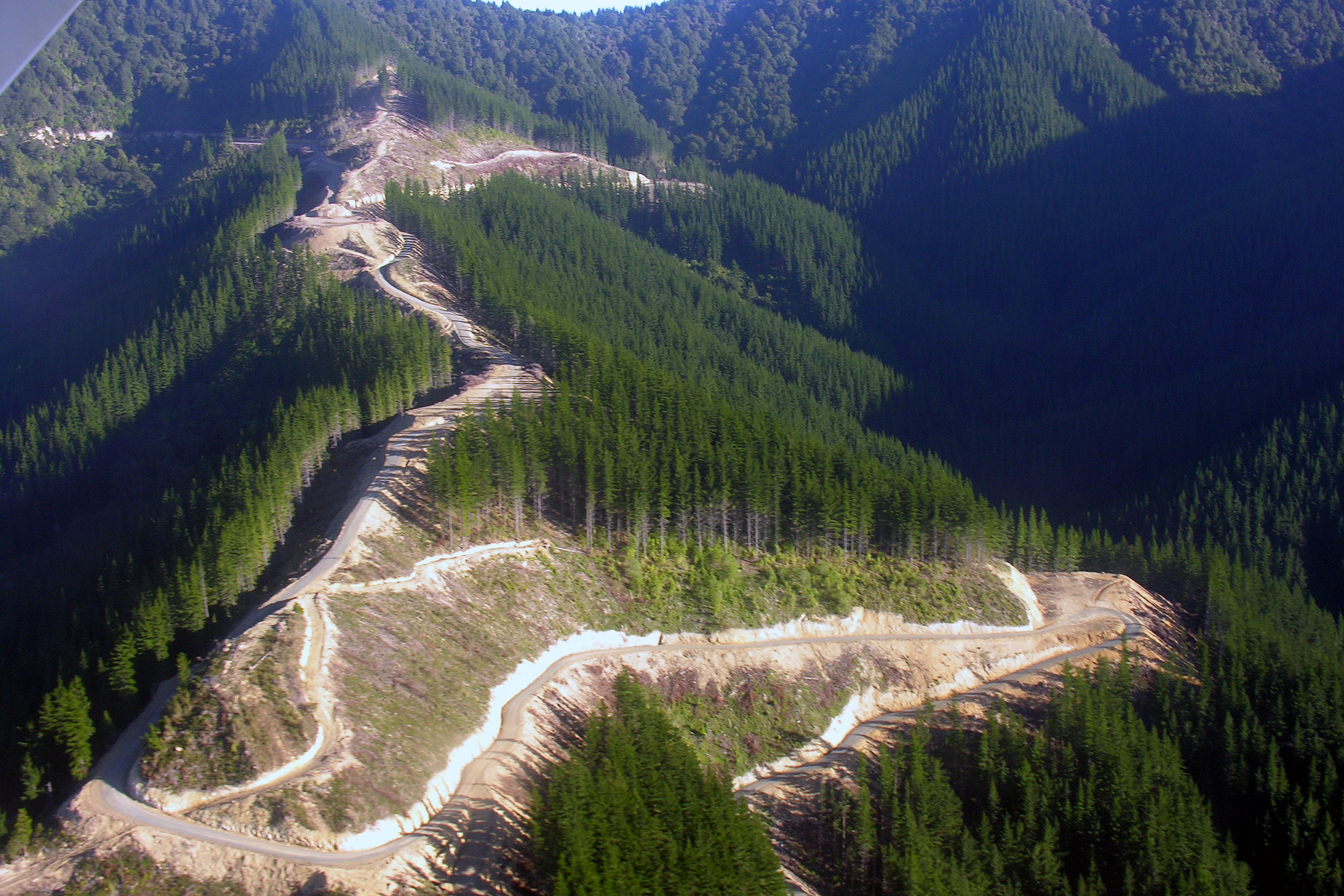 Logging tracks, Marlborough Region. En route Wellington to Koromiko.